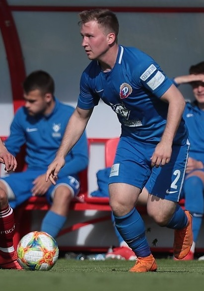 Vladislav Parshikov with FC Chertanovo Moscow in a game against Russia national team.